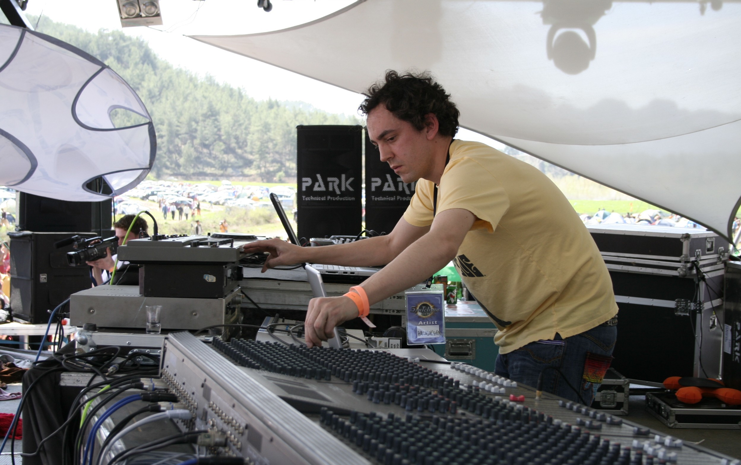 Simon Posford, aka Hallucinogen at Soulclipse in Turkey March 29, 2006